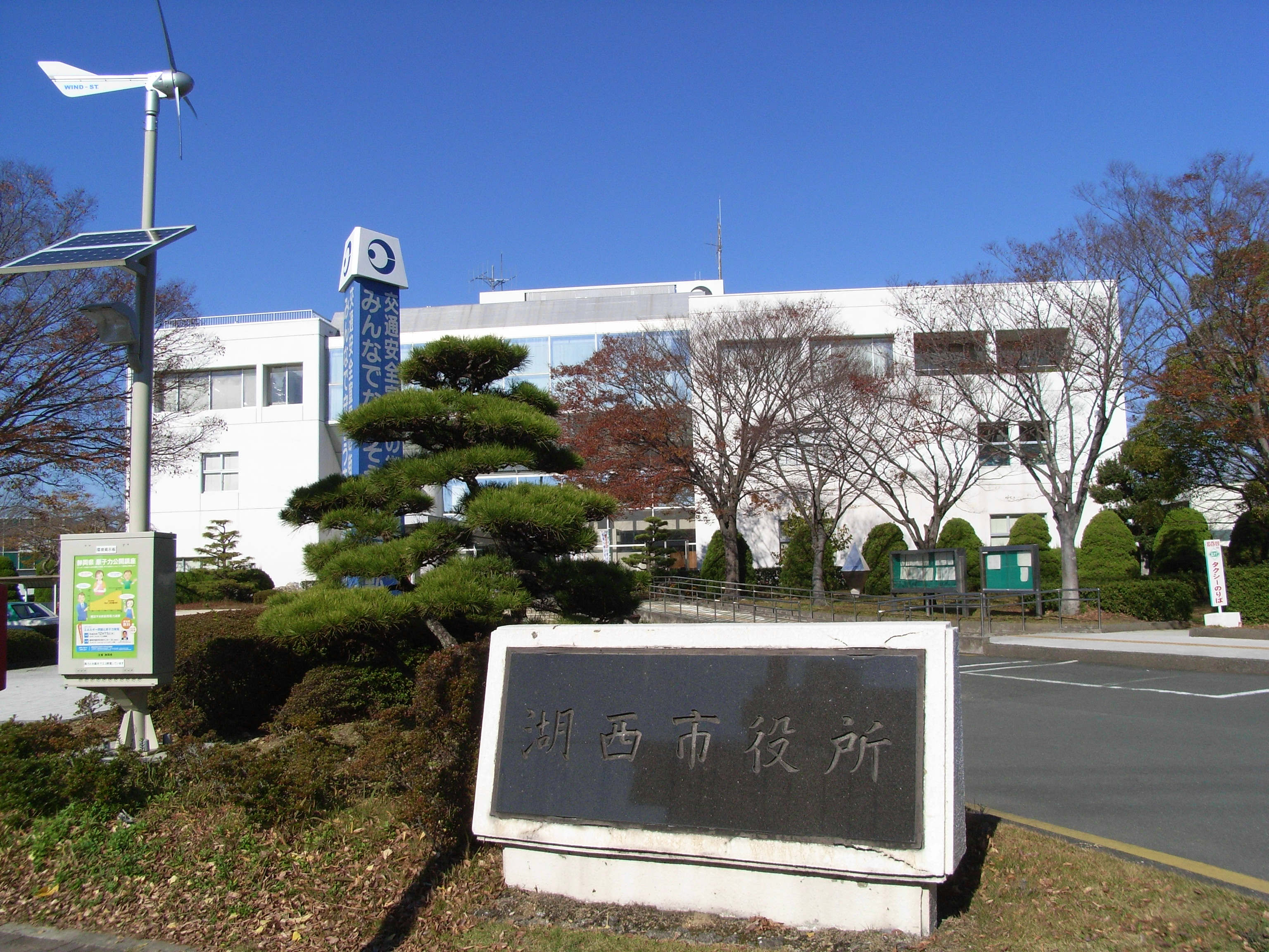 Kosai City Office